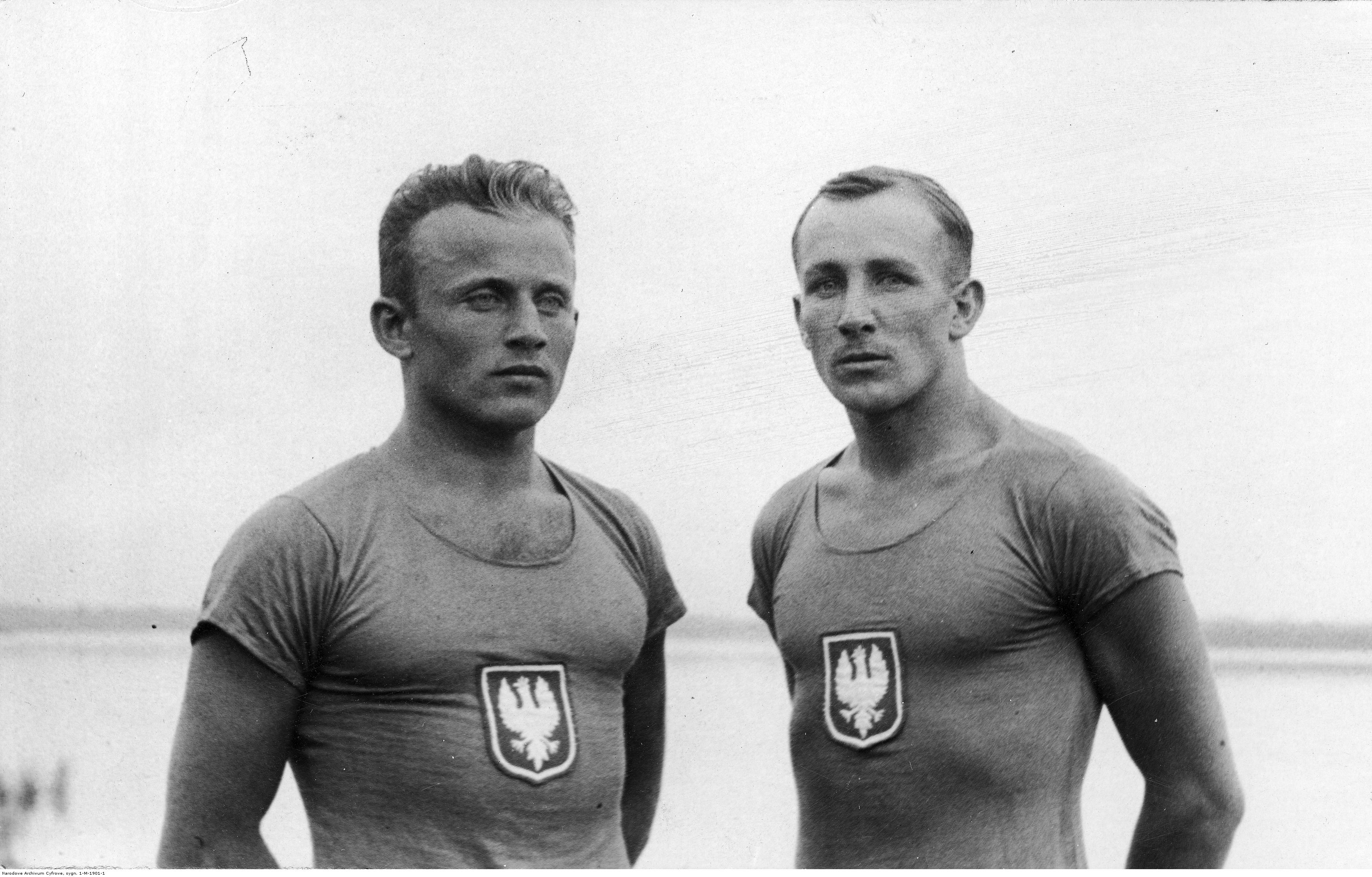 Henryk Budziński (left) and Jan Mikołajczak